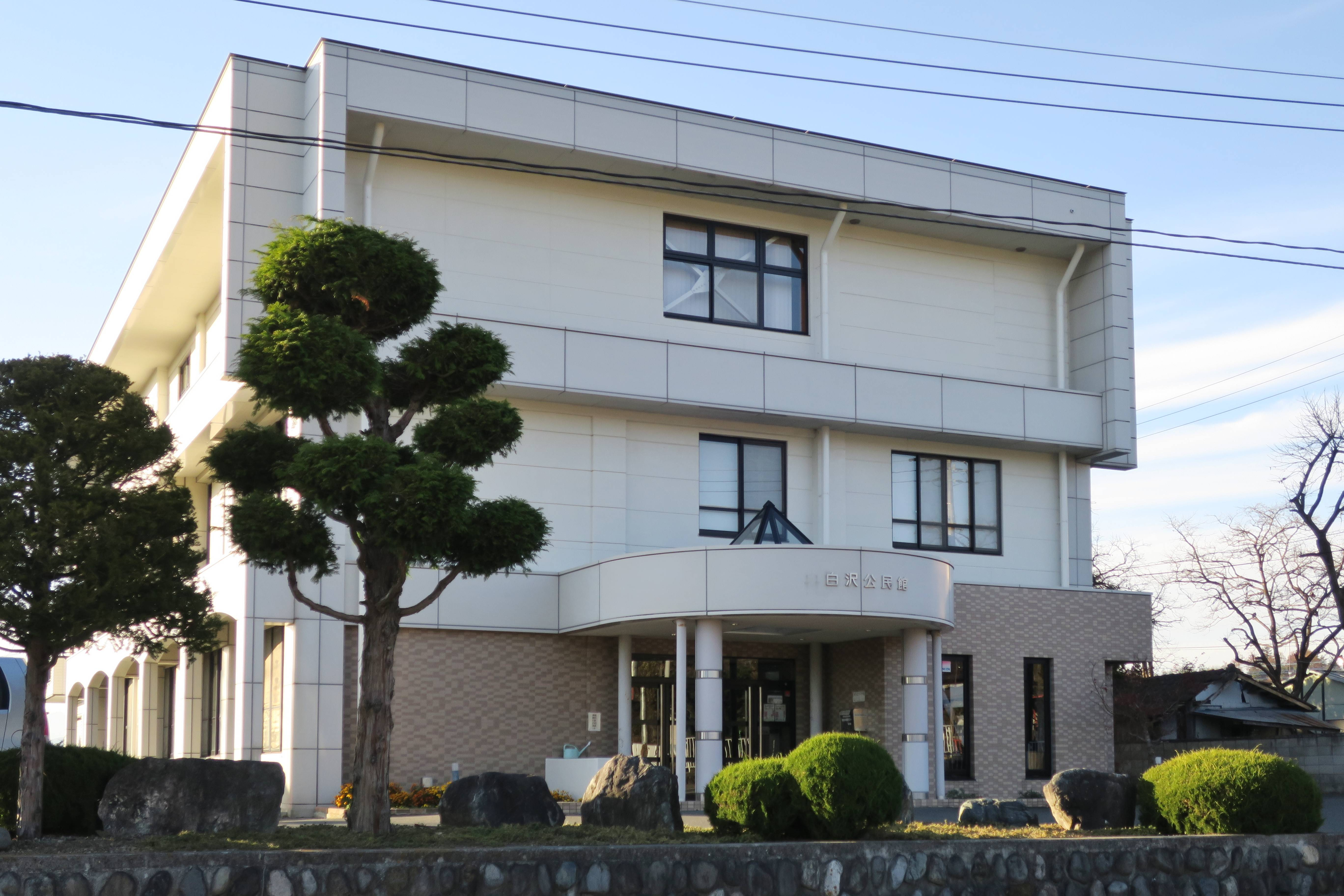 Shirasawa kominkan (Numata).